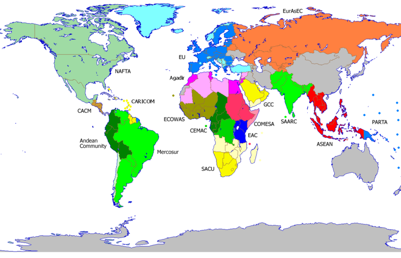 Base for this was